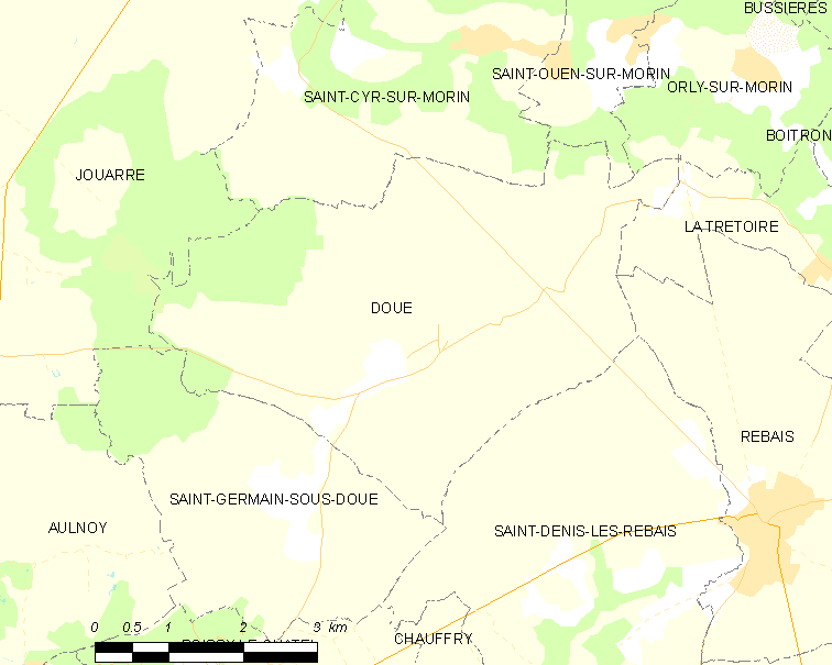 Map of French municipality Doue